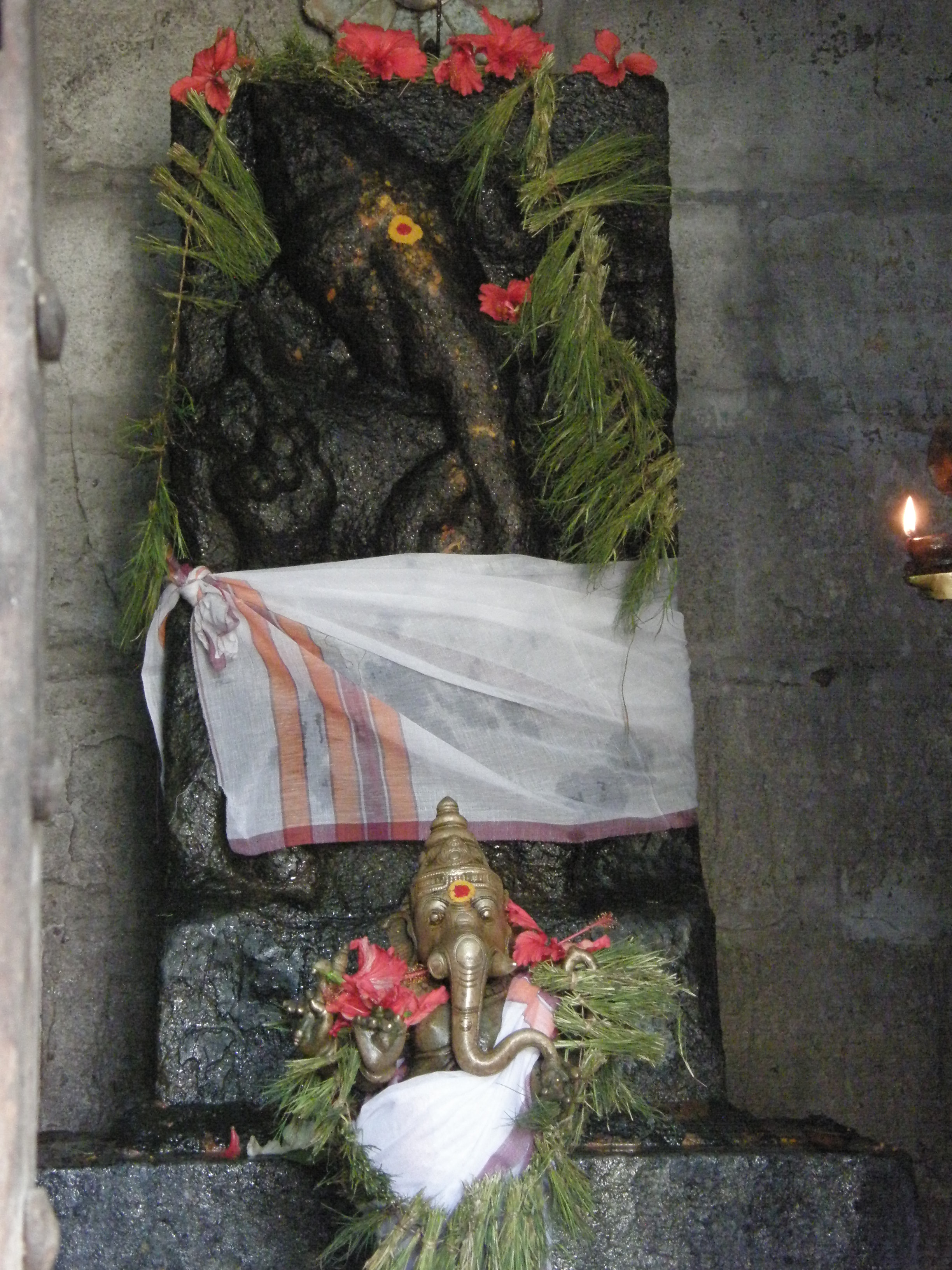 This is a statue in kadambur temple ,said to be taken from north India by King Rajendra